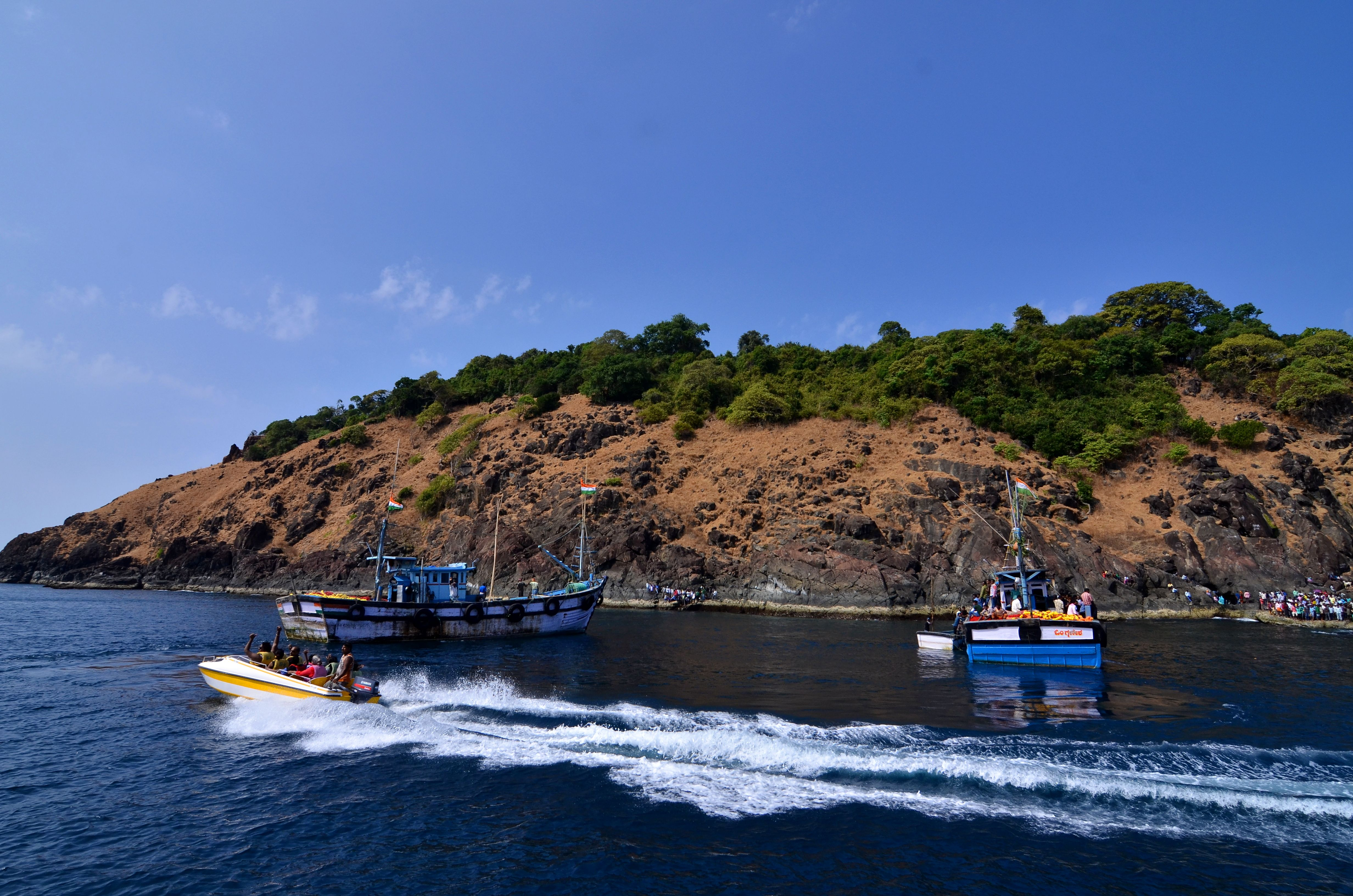 Way back to the coast